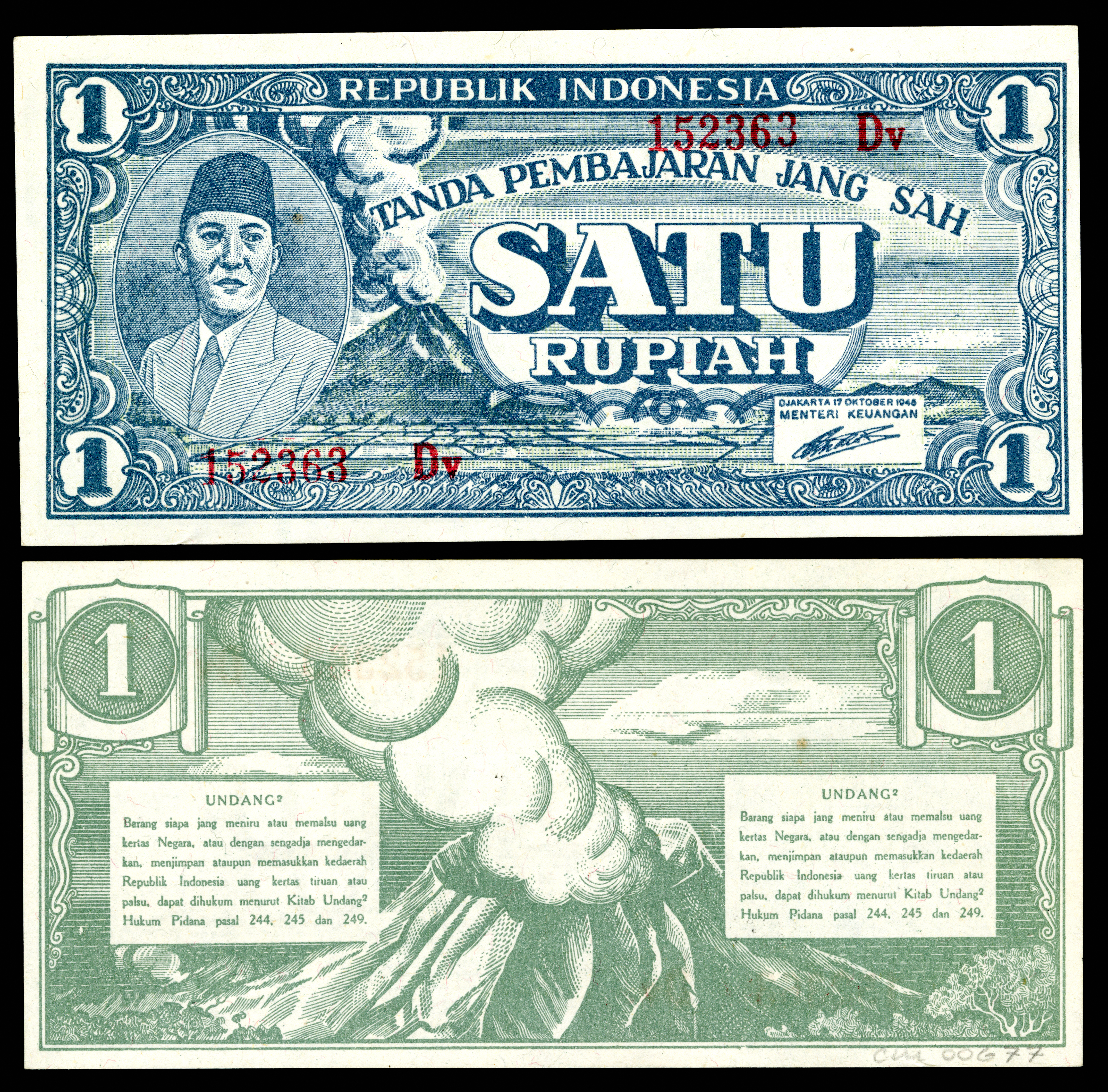 Republic of Indonesia - 1 Rupiah (1945 Issue, first banknotes issued by newly formed Indonesia). Dated 17 October 1945, the notes were not actually issued until late 1946. The legal tender obligation is arched across the front of the note Tanda pembajaran jang sah ("A valid/legal indication of payment"}. Top and bottom of design are not completely parallel, in addition to uneven cutting.